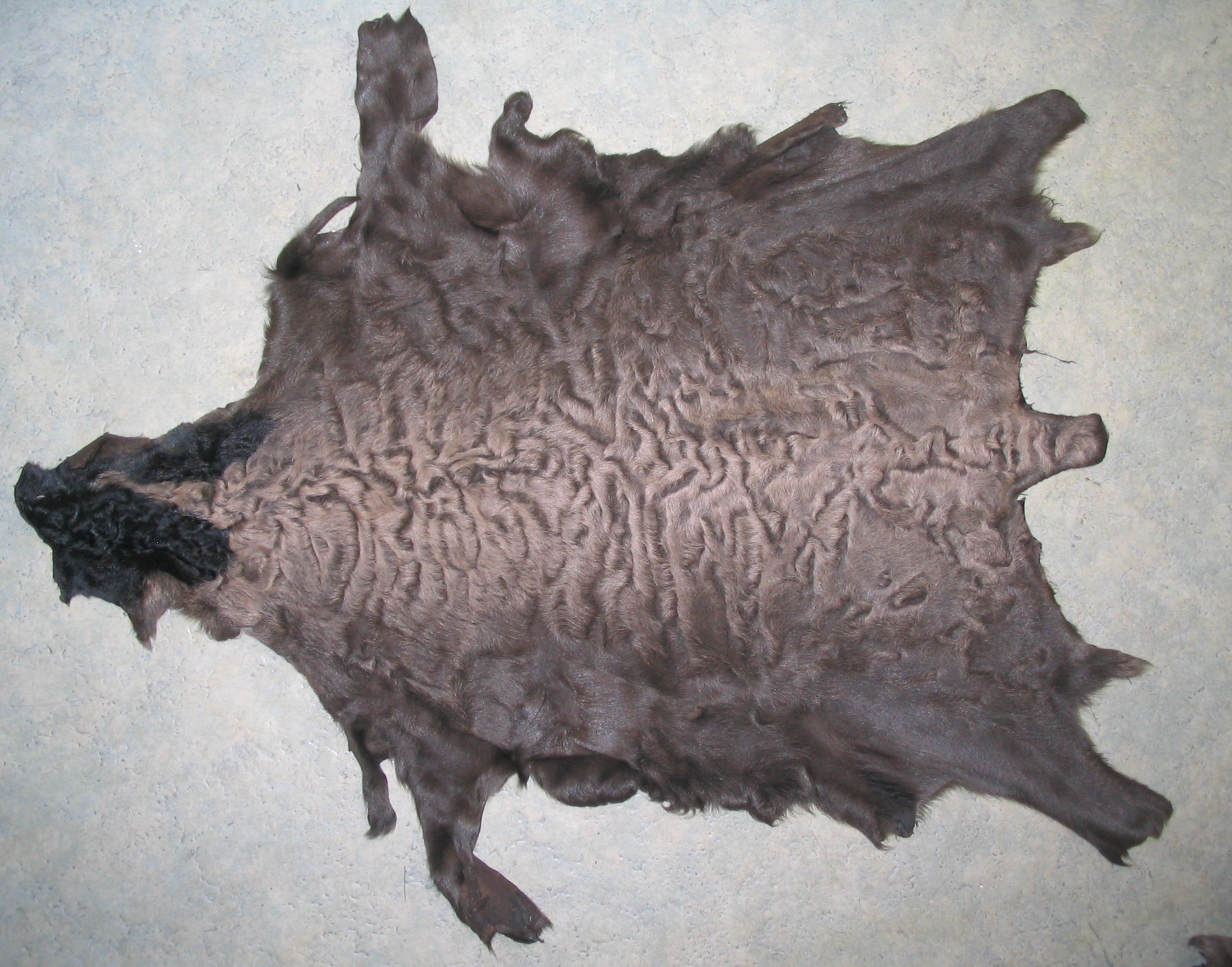 Sourire dyed Indian lamb fur-skin.